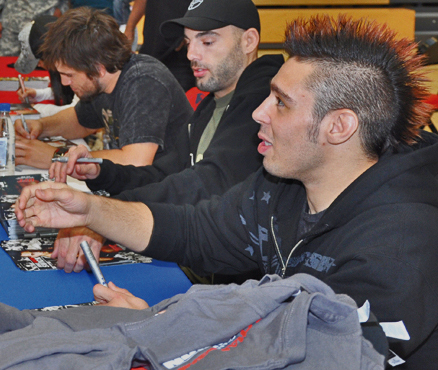 Dan Hardy and fellow Ultimate Fighting Championship fighters sign autographs at the Wiesbaden Fitness Center April 28. (excerpt from the original text)